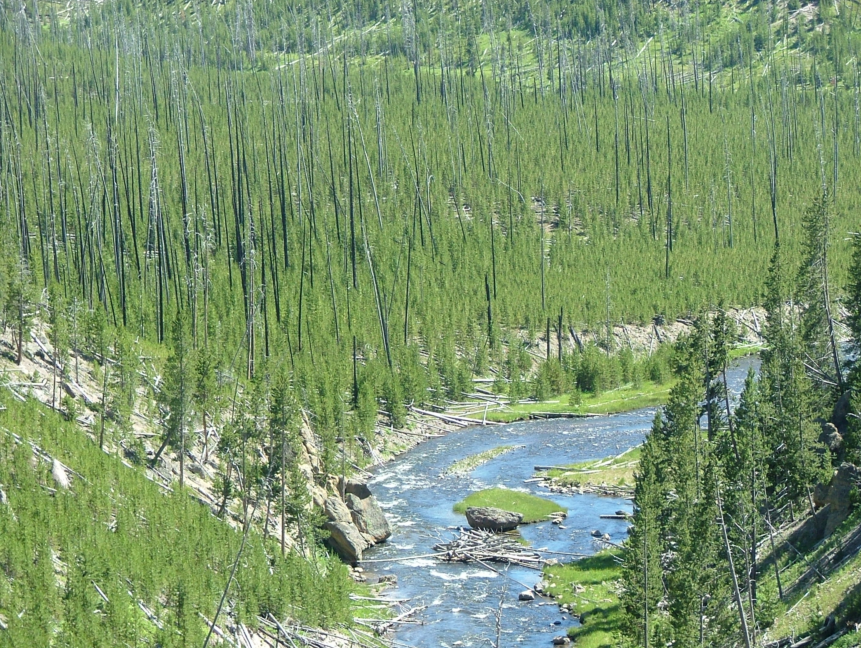 Gibbon River right below Gibbon Falls in Yellowstone National Park, Wyoming, USA.